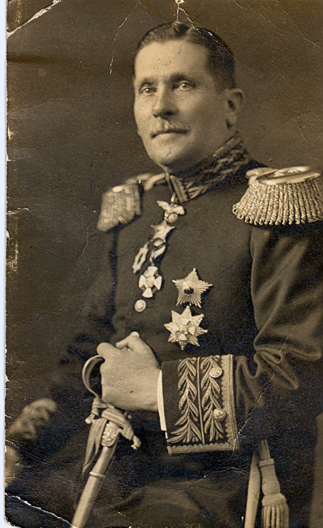 Division General Juan Pablo Bennett Argandoña (January 25, 1871 – August 12, 1951) was a Chilean military officer and member of the Government Junta that ruled Chile between 1924 and 1925.